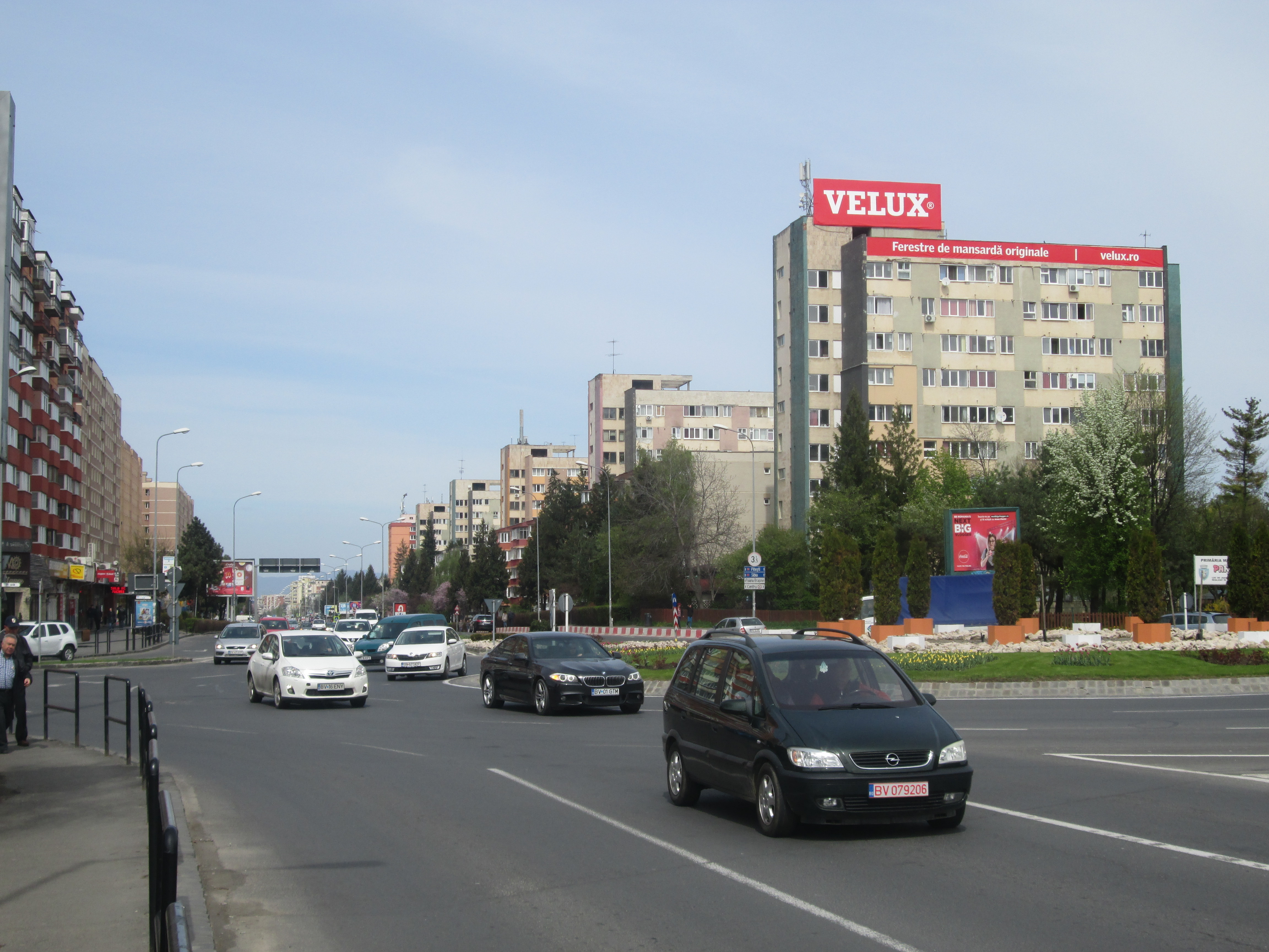 Apartment Blocks/Plattenbauen in the Astra neighborhood, Brasov, Romania.